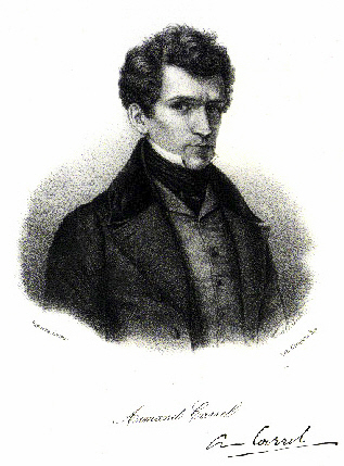 Armand Carrel (1800-1836), French political journalist and author